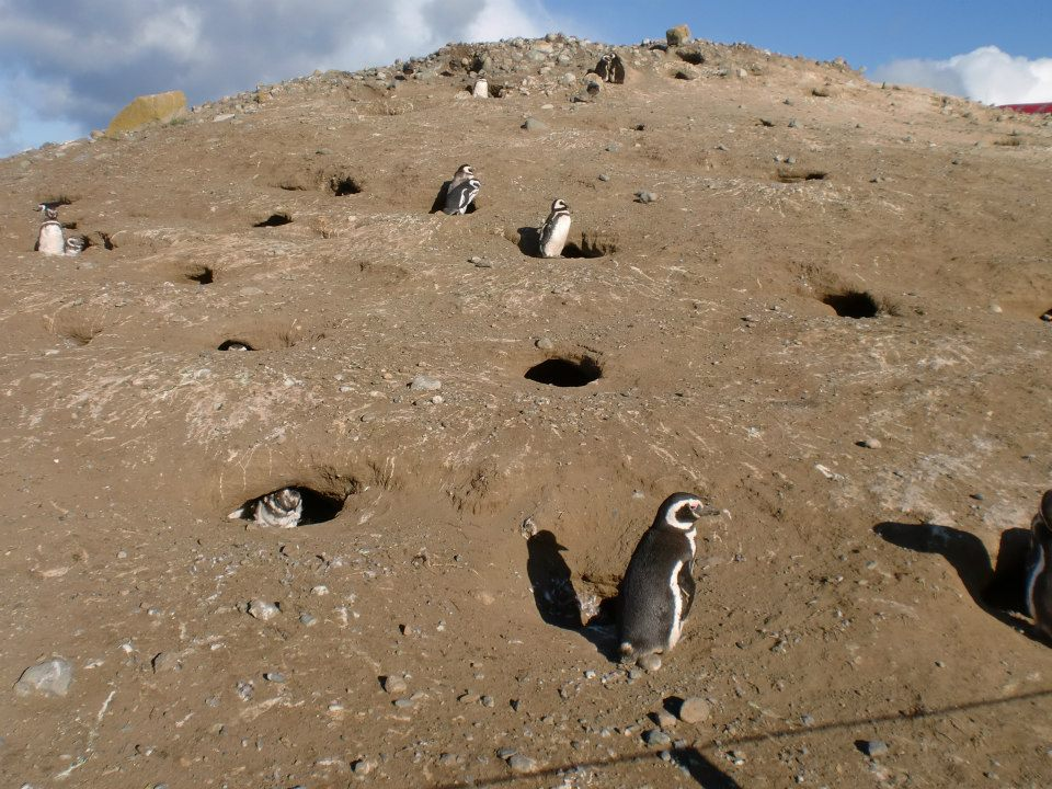 Magellanic Penguins and their burrows on Isla Magdalena, in the Monumento Natural Los Pingüinos.